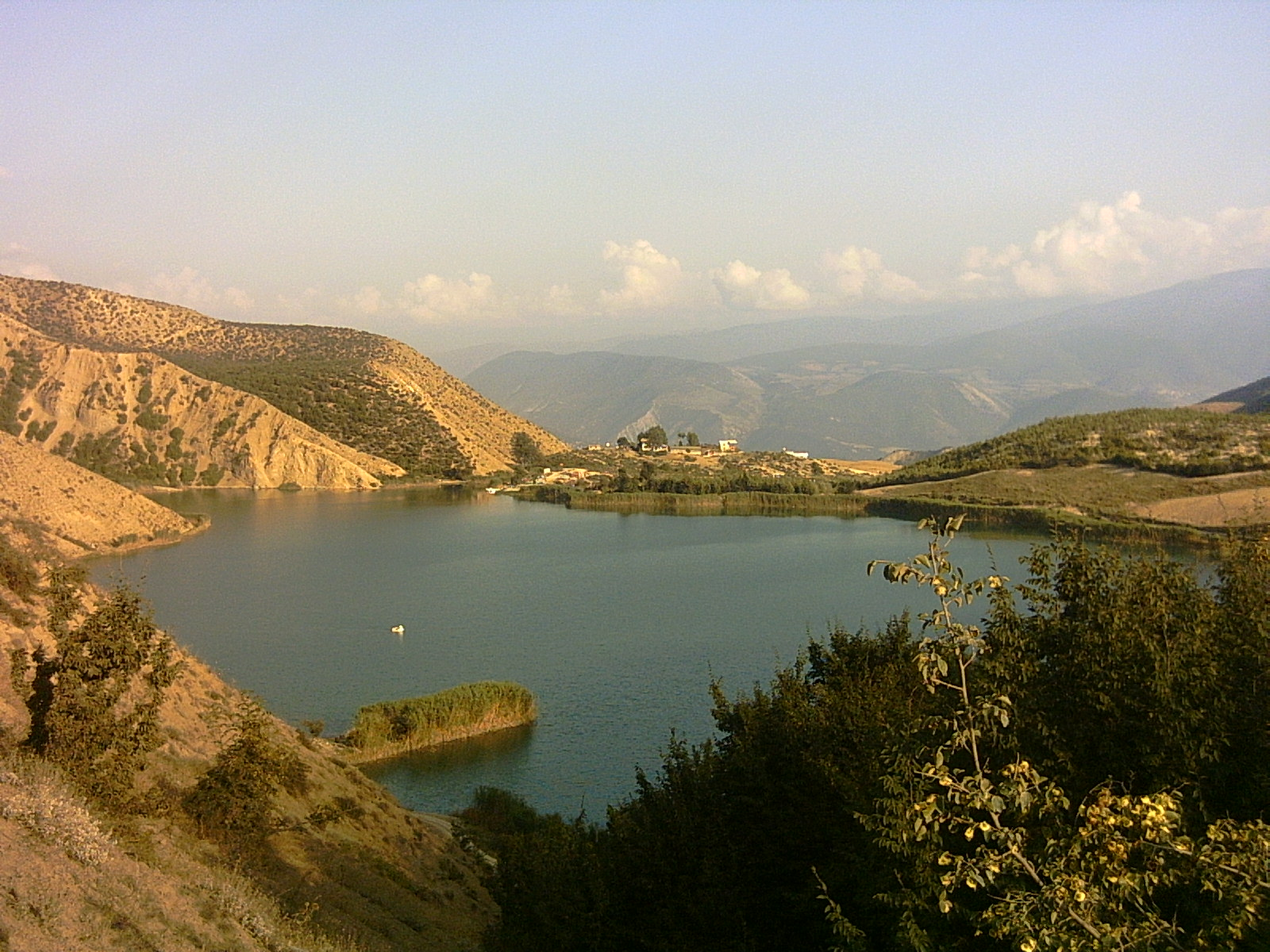 Valasht Lake, Kelardasht, Iran